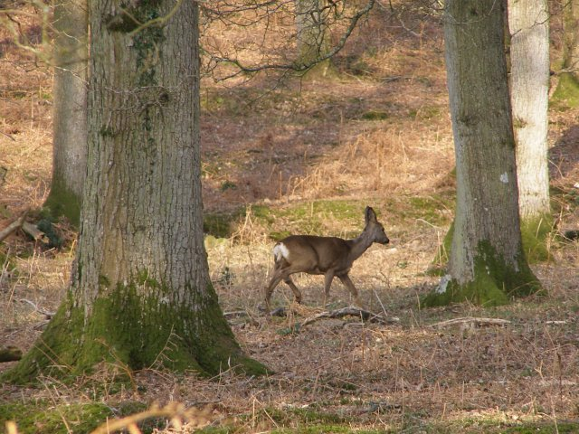 Roe deer in Islands Thorns Inclosure, New Forest This is a relatively remote part of the New Forest, easier to stumble across deer. The crisp leaves and twigs underfoot mean that they hear you coming before you can get too close but there are plenty of trees to hide behind. Just north of here is Studley Castle, the site of a medieval royal hunting lodge. The New Forest (Nova Foresta) was created in 1079 by William the Conqueror, and the area was subject to forest law to protect the creatures of the chase and their habitat. Things had changed a lot by 1851 when the Deer Removal Act was passed by parliament and, officially, all the deer were culled. Nowadays the deer population is 'controlled' by Forest Keepers who shoot carefully selected individuals using high-velocity rifles. Roe deer, like the female in this photograph, browse on tree shoots and shrubs. In the winter this puts them in competition with the commoners' stock, and thus there is pressure from the commoners to limit the deer population.